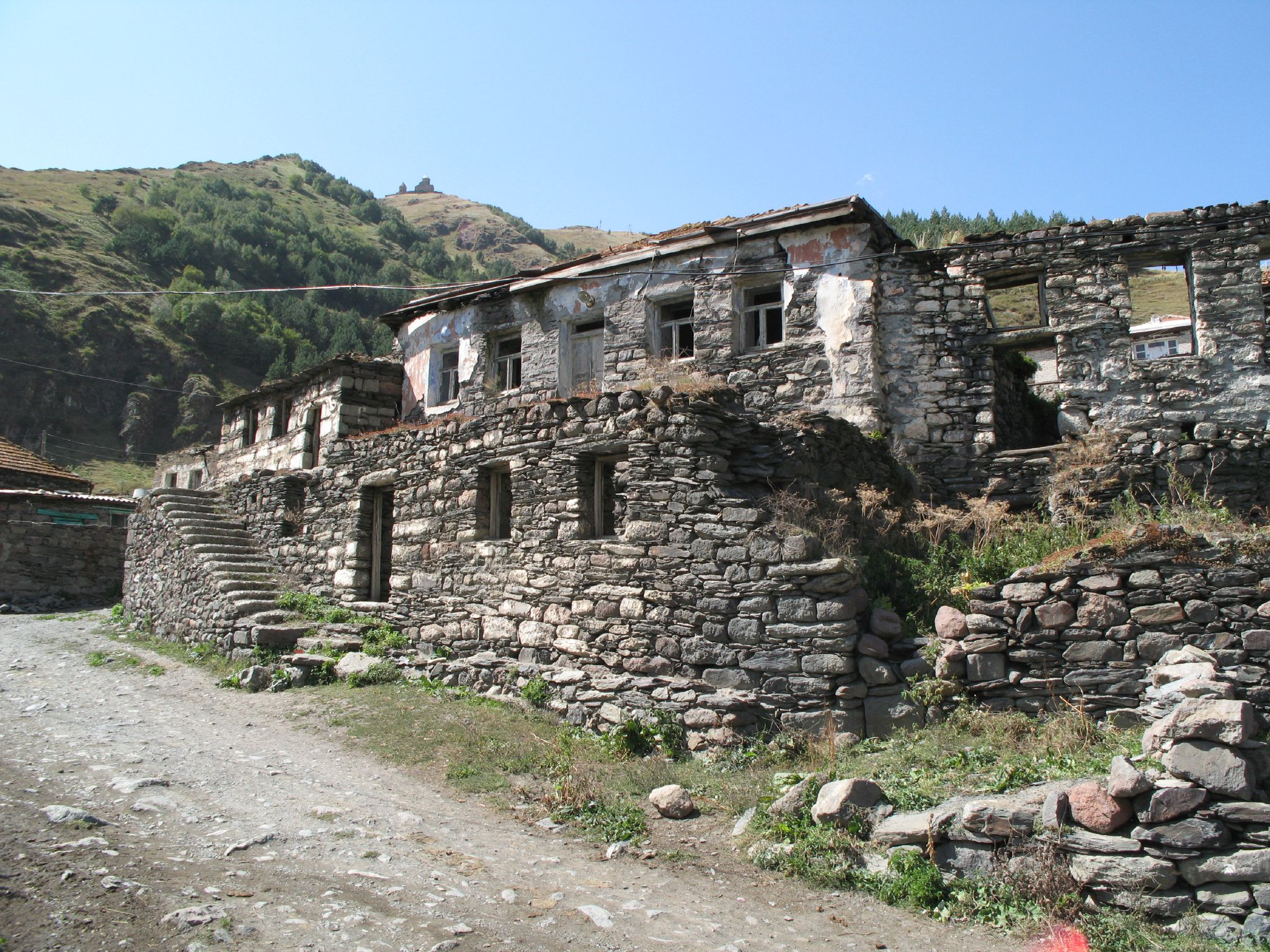 Gergeti village